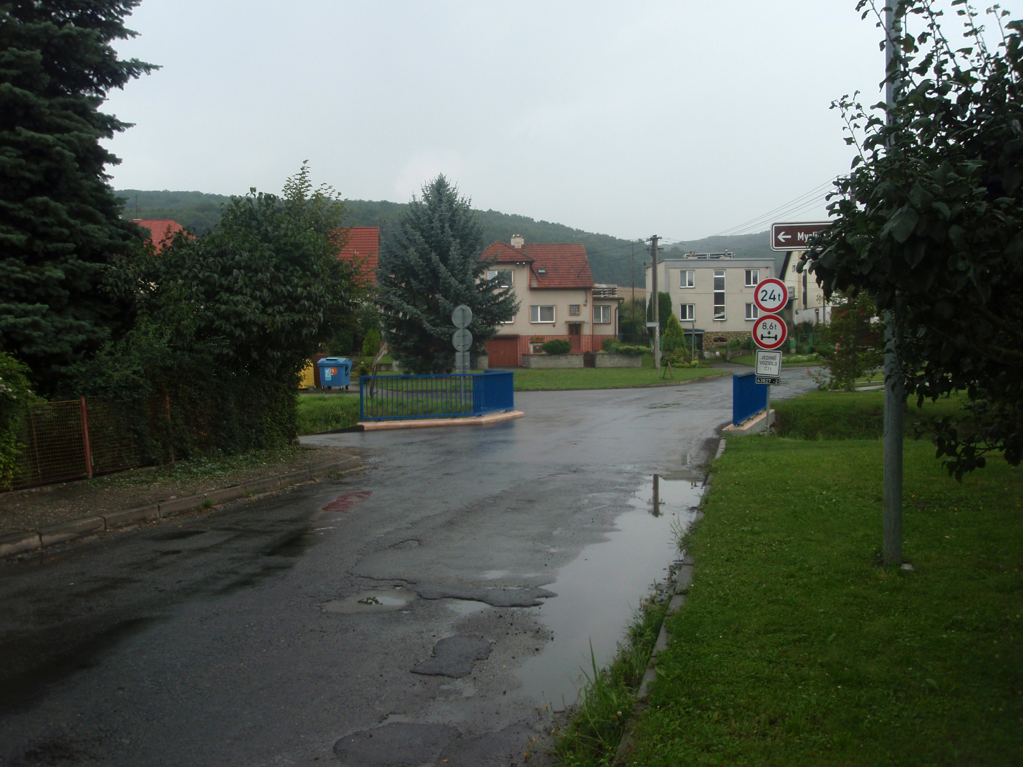 Lechotice, Kroměříž District, Czech Republic.